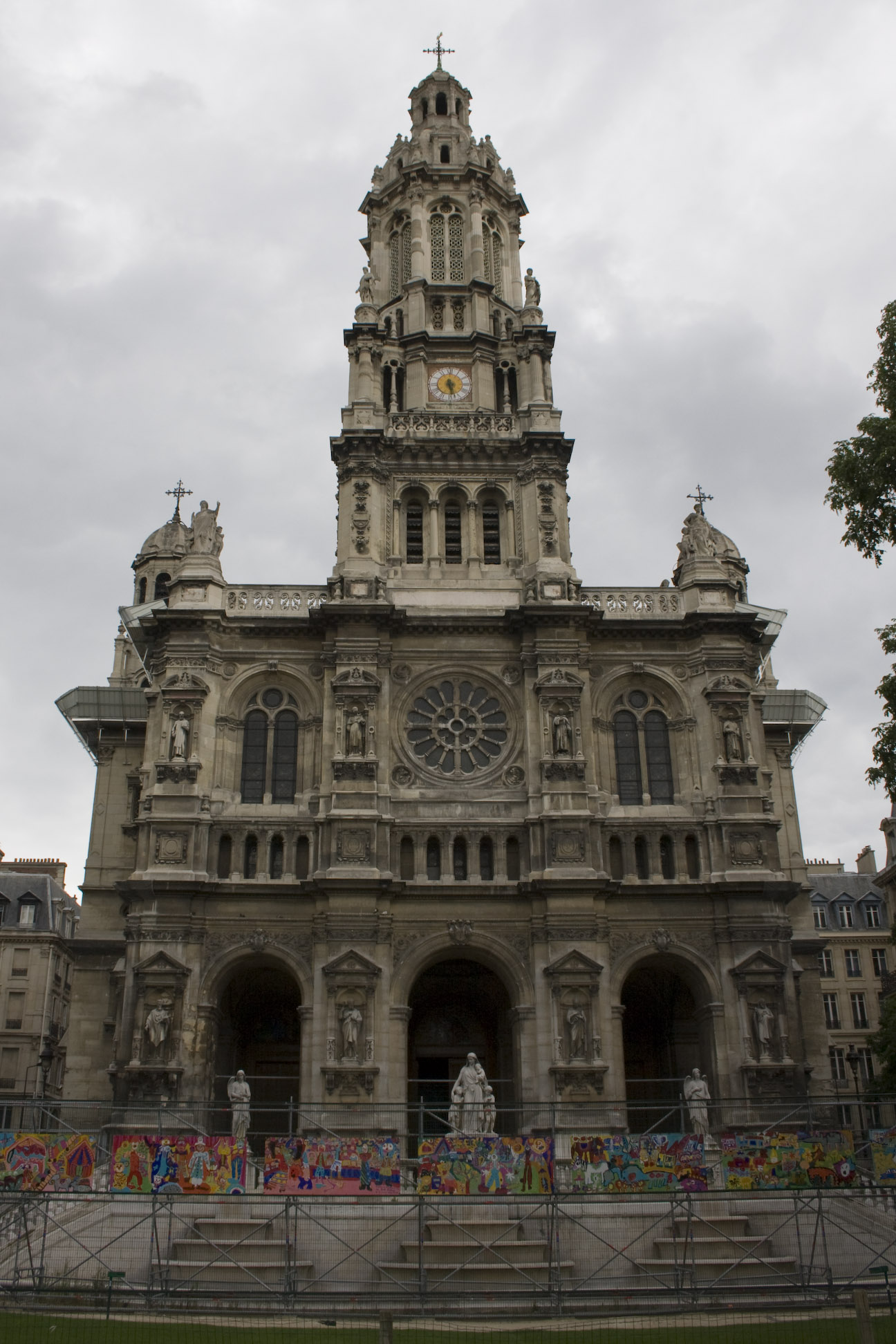 Church of Saint Trinity in Paris